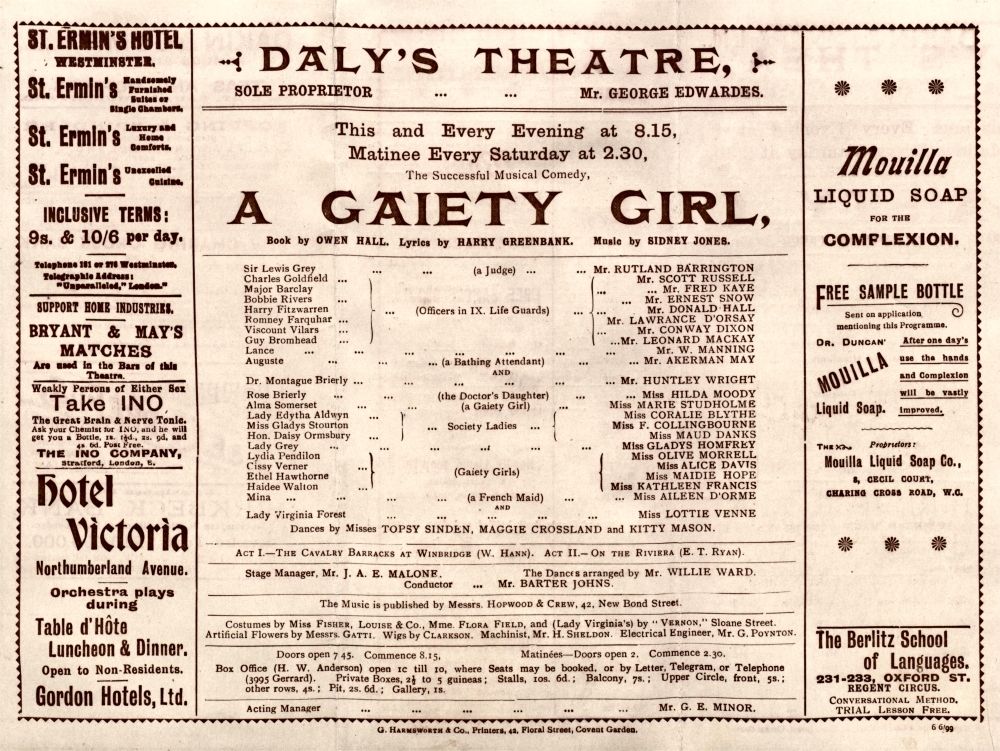 Scan of theatre programme for A Gaiety Girl from the original production, 1894